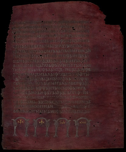 Silver Bible, the last page of the codex